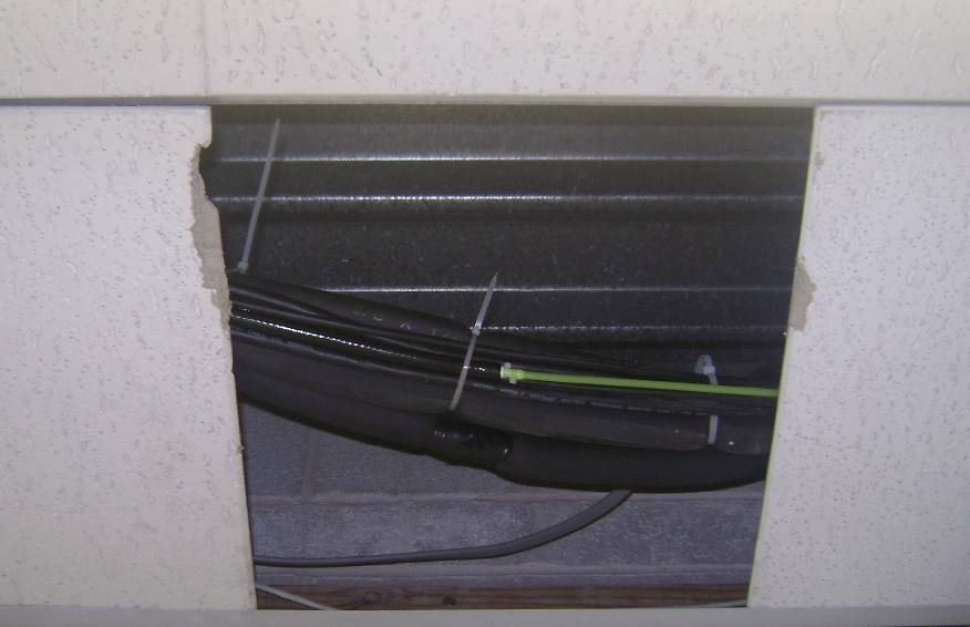 Broken panels from a dropped "concealed" ceiling